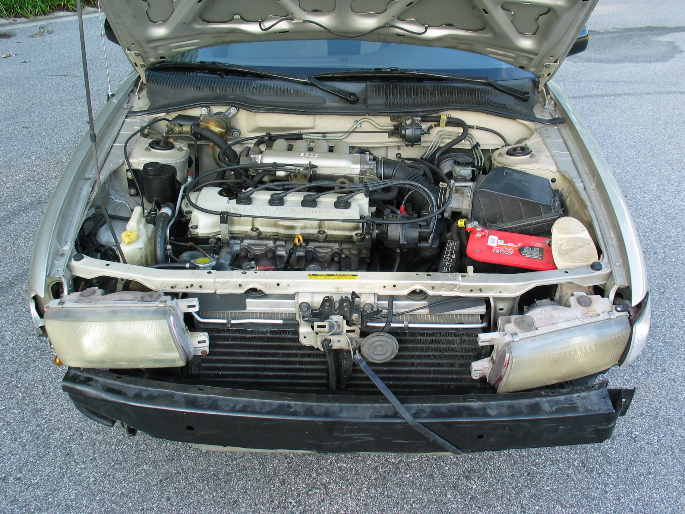 This was the most common engine found in the 1991-1999 Nissan Sentras.